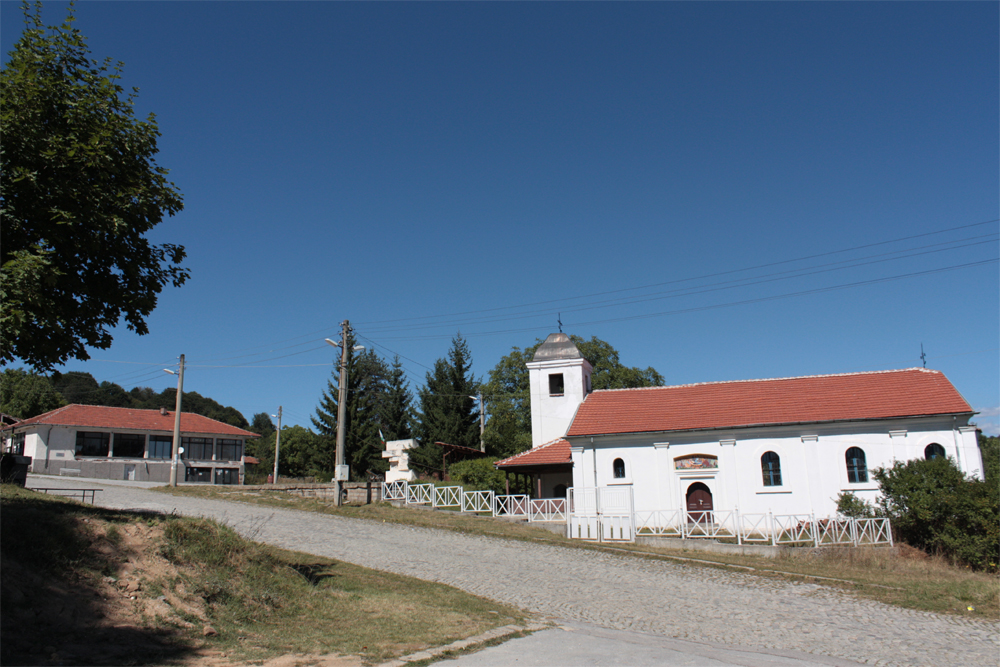 Apriltsi Square in Belitsa with the church Assumption of Mary and Hristo Botev Street